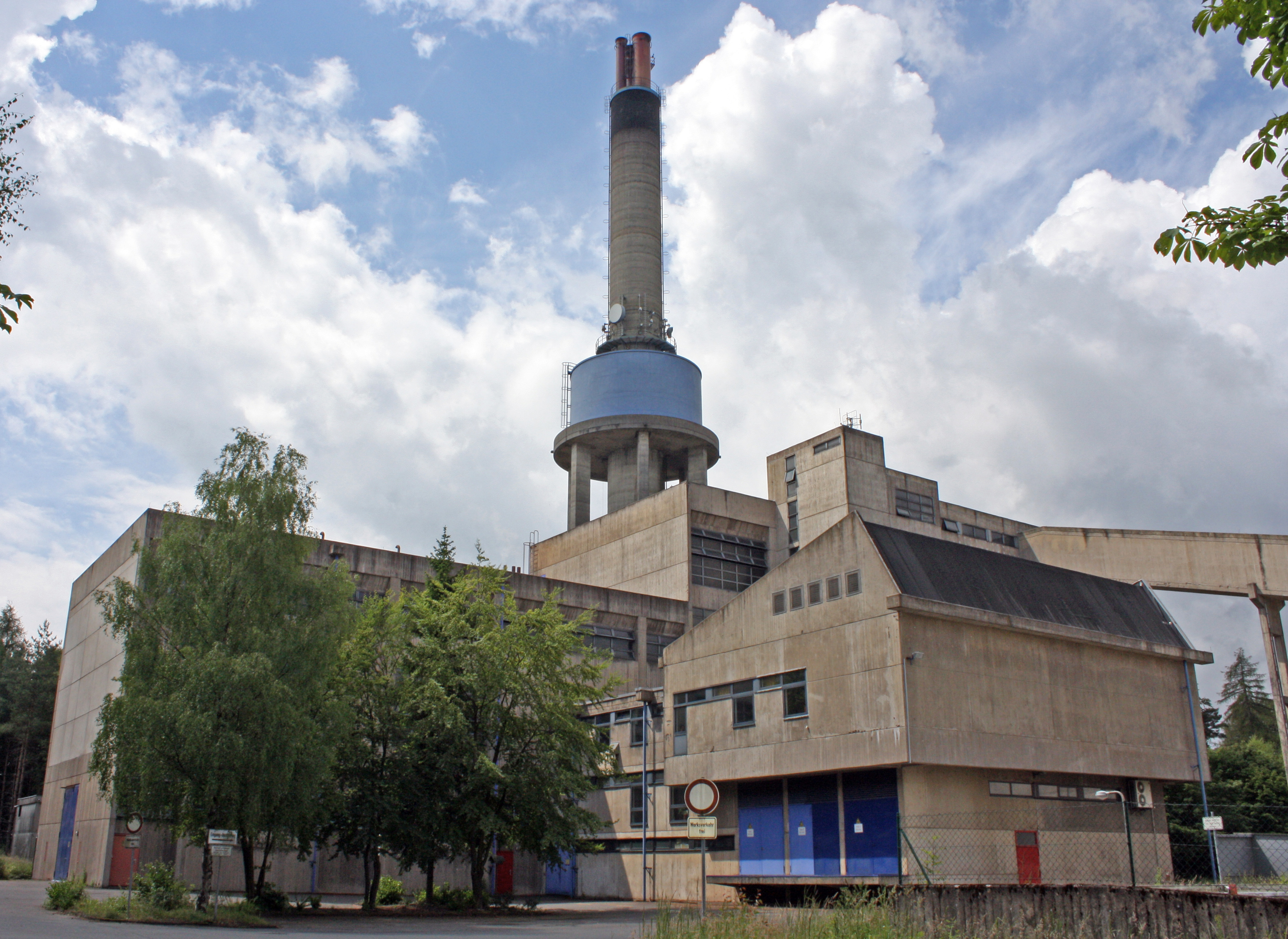 District heating plant Marburg